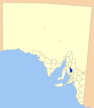 Map of South Australia showing the location of the Clare and Gilbert Valleys Local Government Area. A modification of GDFL map by Astrokey44; found here: File:SA_LGA_blank.png